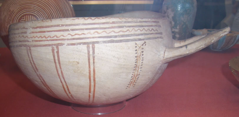 White Slip bowl, Cyprus, British Museum